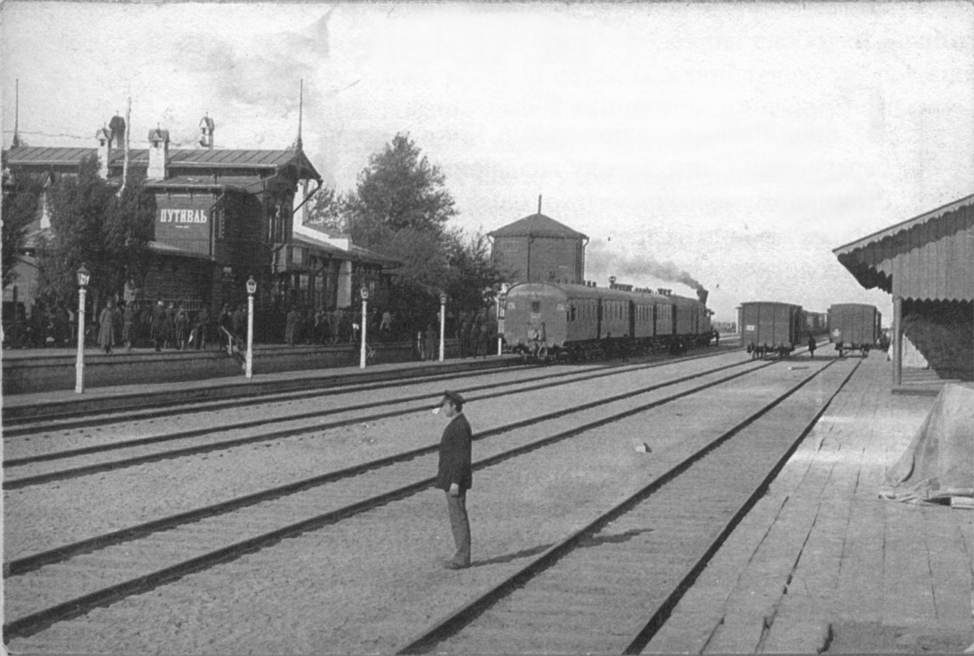 Putivl Train Station (Мoscow-Kiev-Voronezh Railway) in the begining of the XX century.